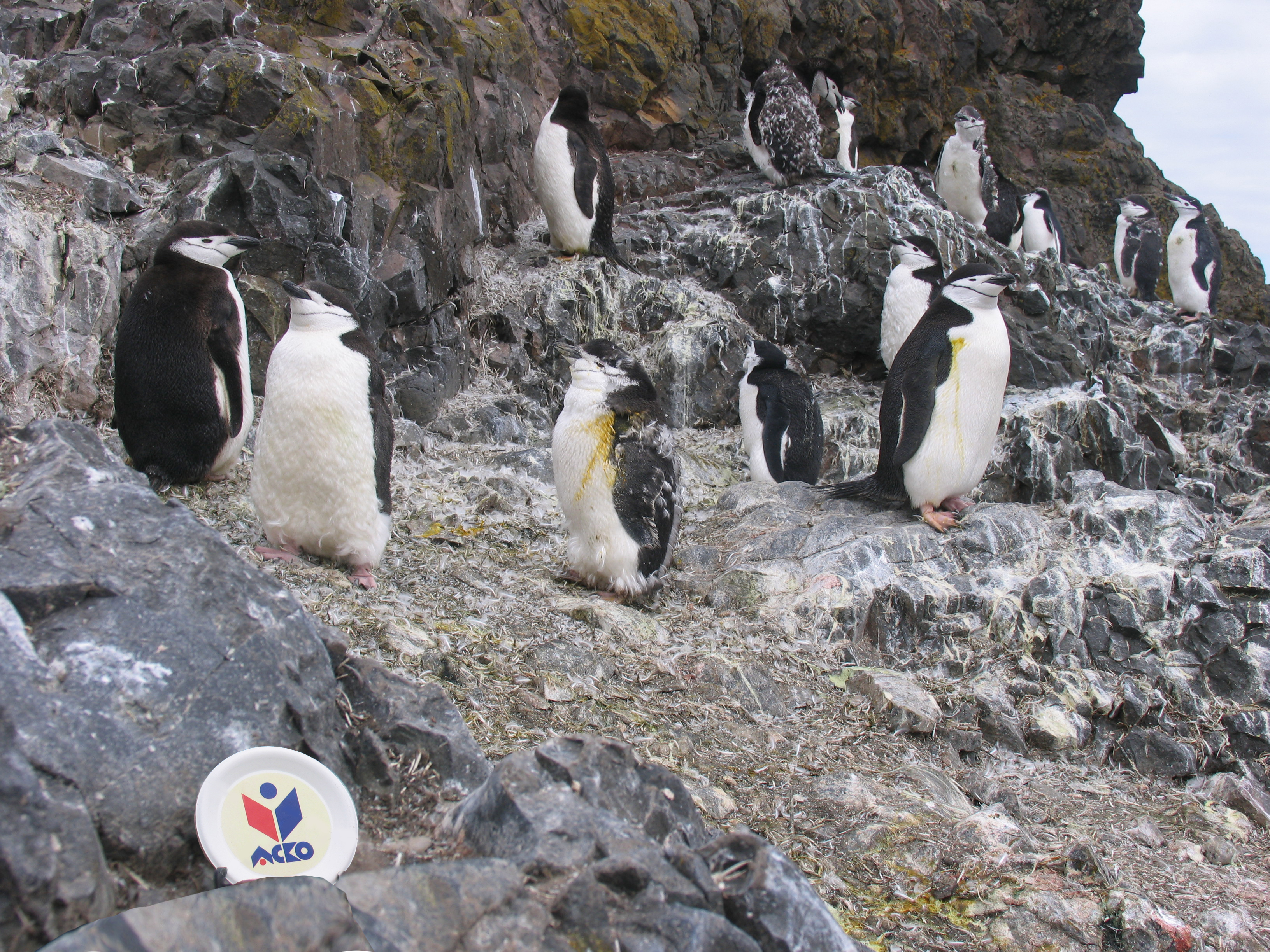 Chinstrap Penguins Pygoscelis antarcticus